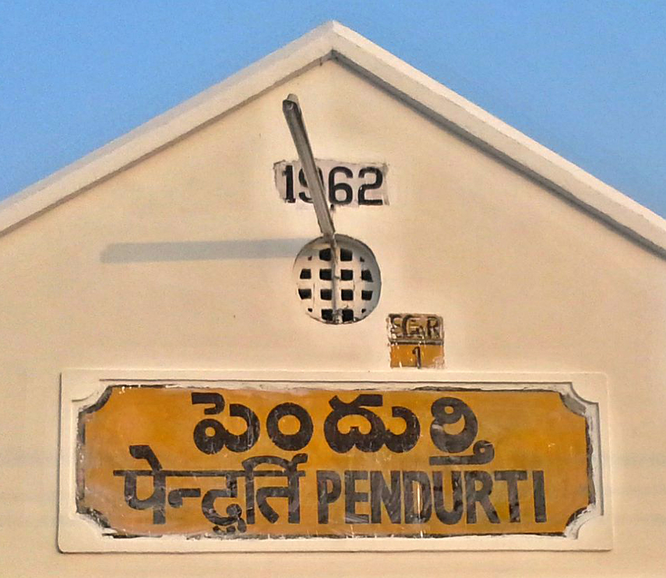 Pendurthi Railway station name board on an entrance arch built in 1962